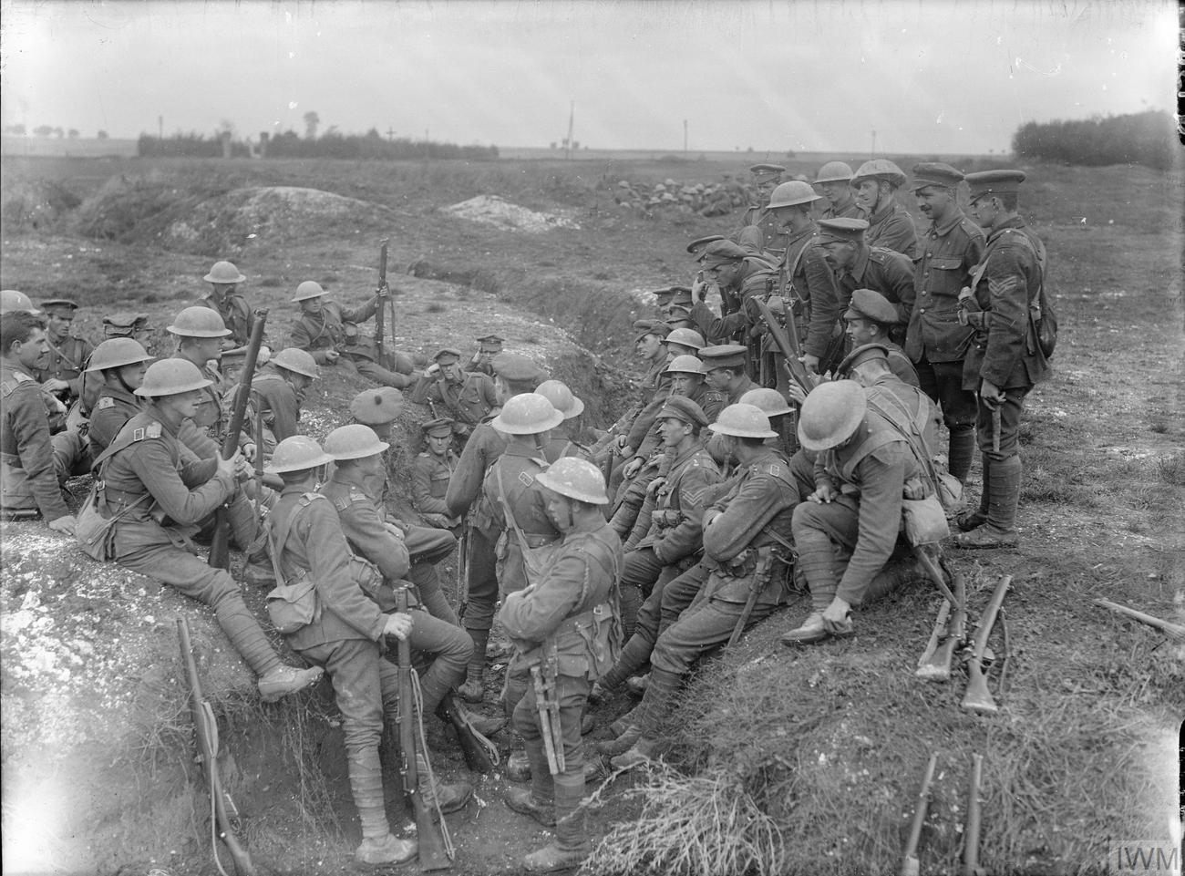 Photograph of an officer lecturing to Northumberland Fusiliers in a reserve trench at Thiepval.